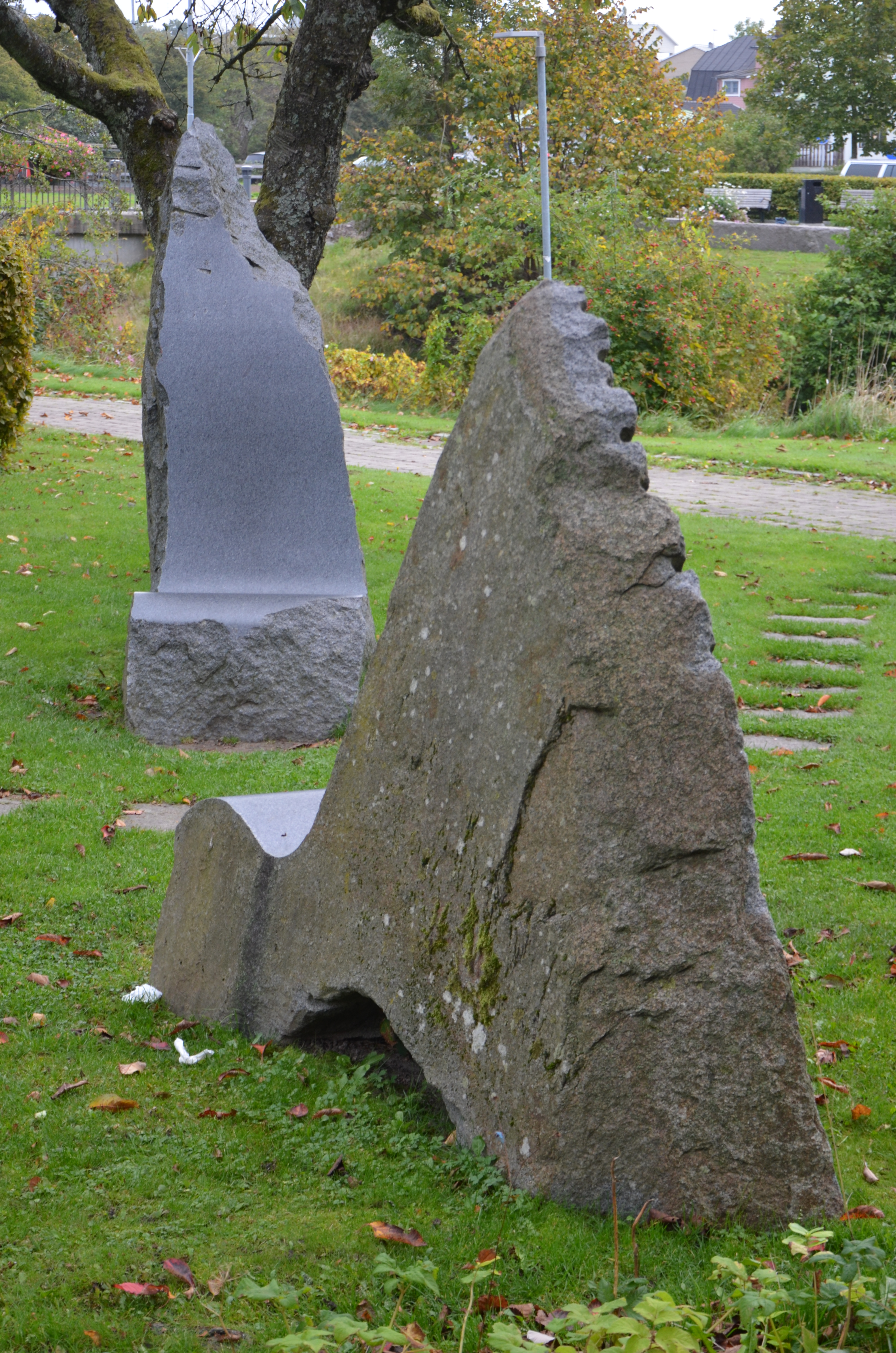 Två stolar, 1997, diabas, Utnför kulturhuset Fyren i Kungsbacka